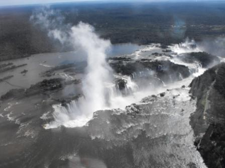 Iguazu Falls, in Misiones (Argentina).